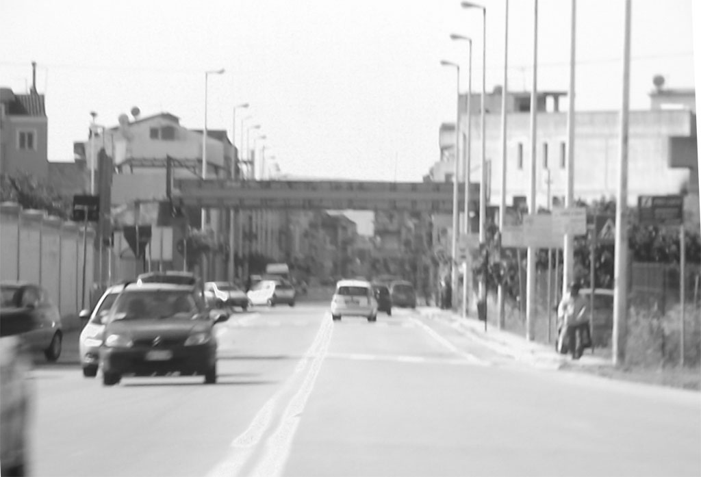 The old and never used railway bridge over via Giulio Cesare in Monserrato (Sardinia, Italy), in 2010. The structure was built for the never completed link railway between the Monserrato station, ran by Ferrovie Complementari della Sardegna (then Ferrovie della Sardegna and then ARST) and the FS network in Cagliari. Few months after this photo was taken, the structure was removed to allow the building of the viaduct of the Monserrato-Gottardo-Policlinico line for the Cagliari light rail system.